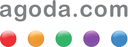 Logo